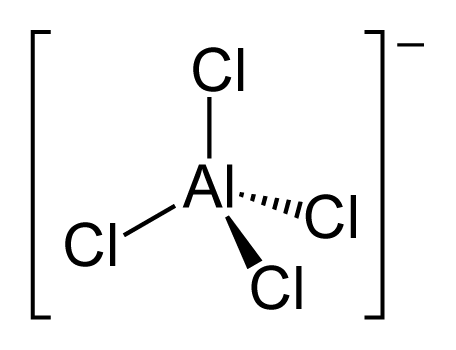 Structural formula of the tetrachloroaluminate anion, [AlCl4]−. Structure drawn in ChemBioDraw Ultra 12.0.